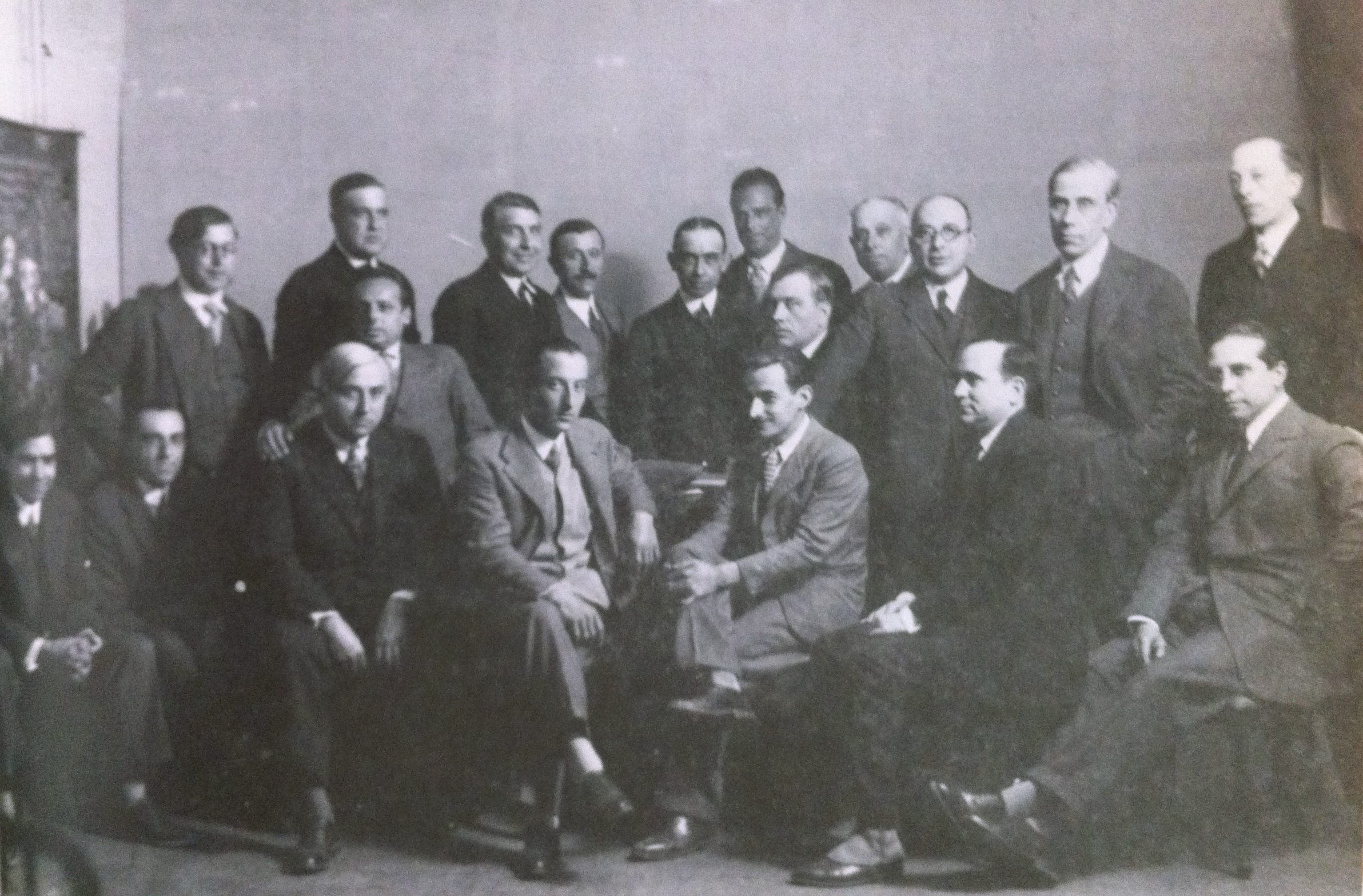 Grup de socis de "Les Arts i els Artistes".